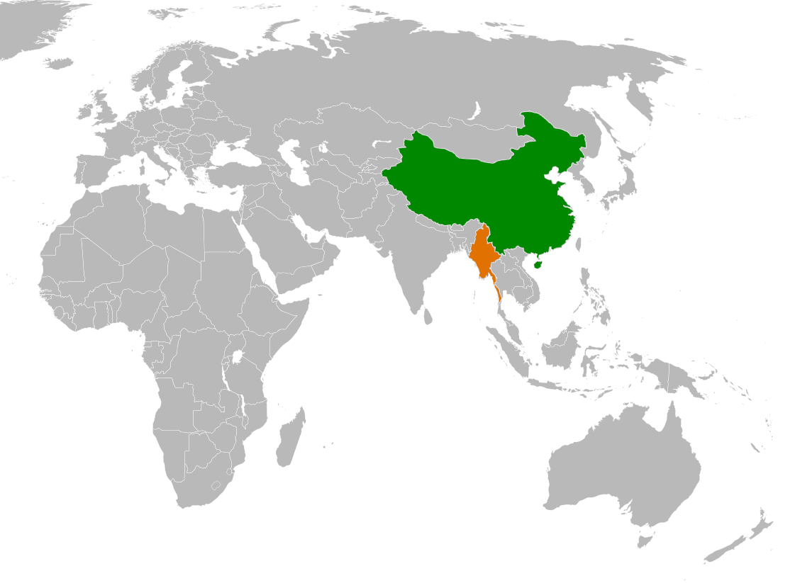 Locator map showing China and Myanmar